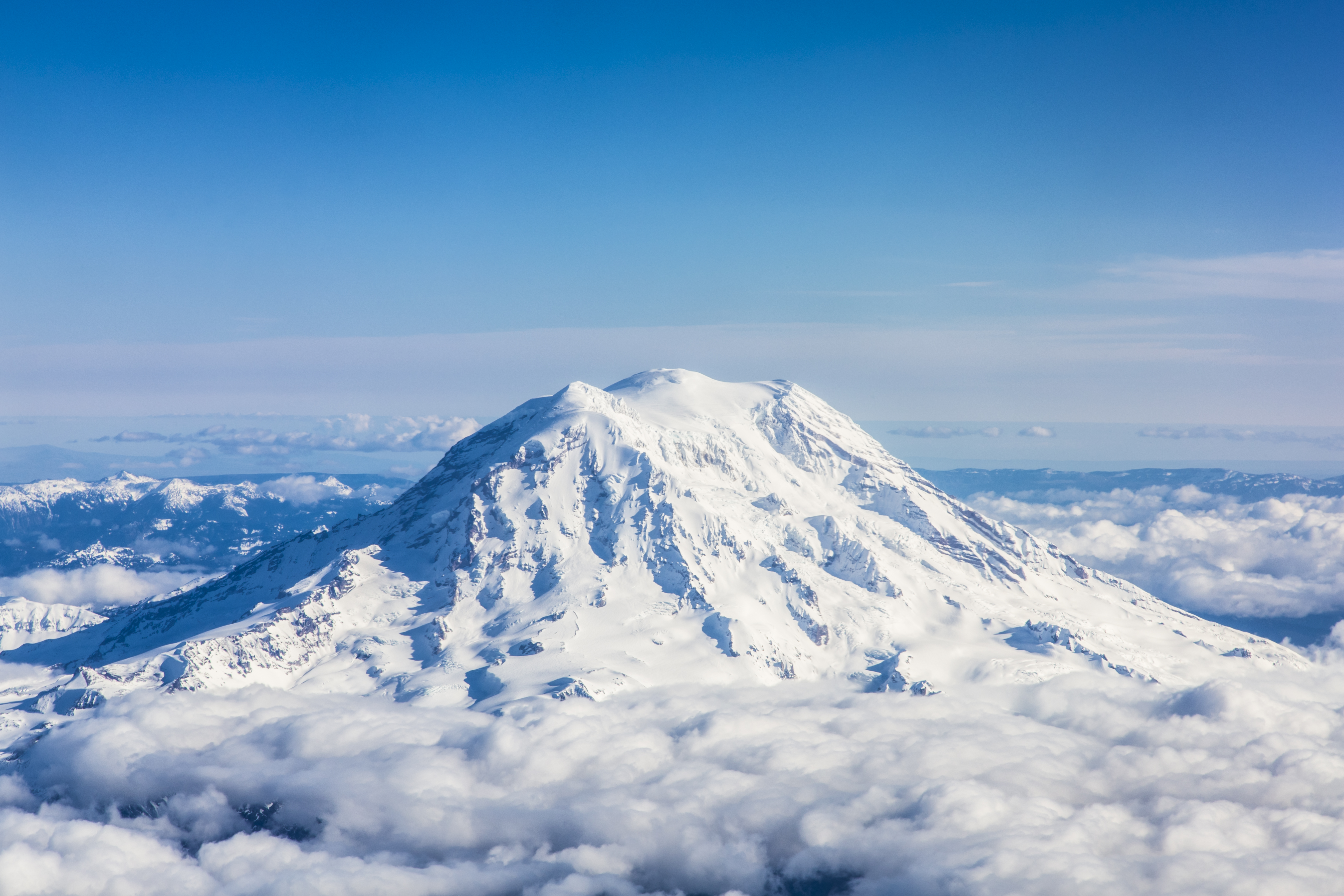 Mount Rainier from 30,000 feet. Shot during a flight with a full frame camera. Washington, USA.